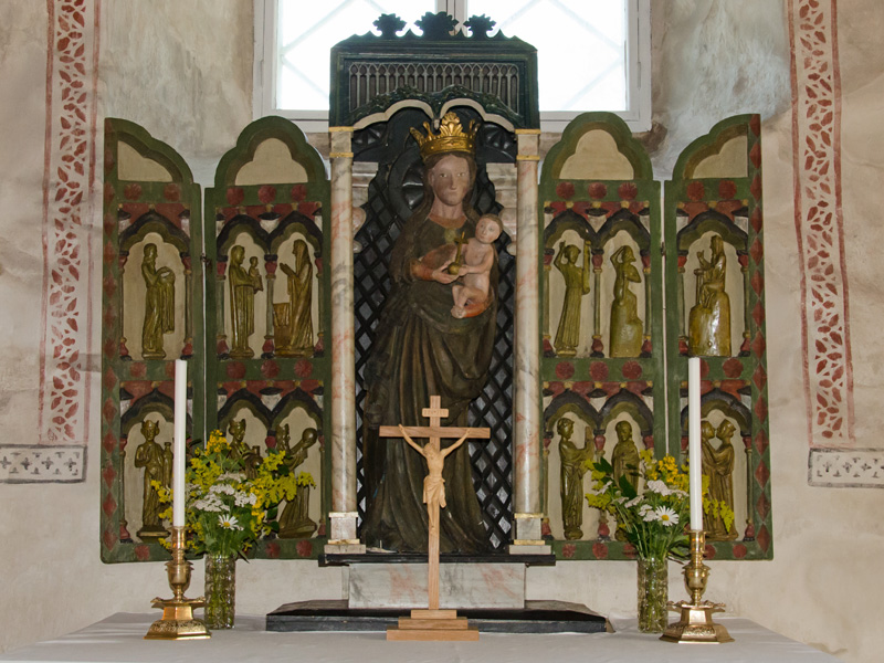 Altarpiece in St Anne's Church, Kumlinge Finland